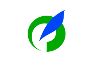 Flag of Kamikawa Hyogo